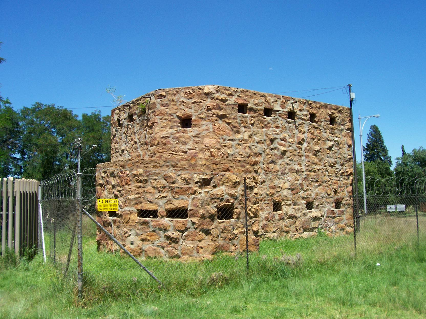 This media shows a South African Protected Site with SAHRA file reference 9/2/233/0002-002.